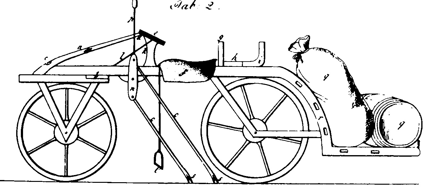 Three-wheeled Velocipede by Johann Carl Siegesmund Bauer, Nuremberg 1817